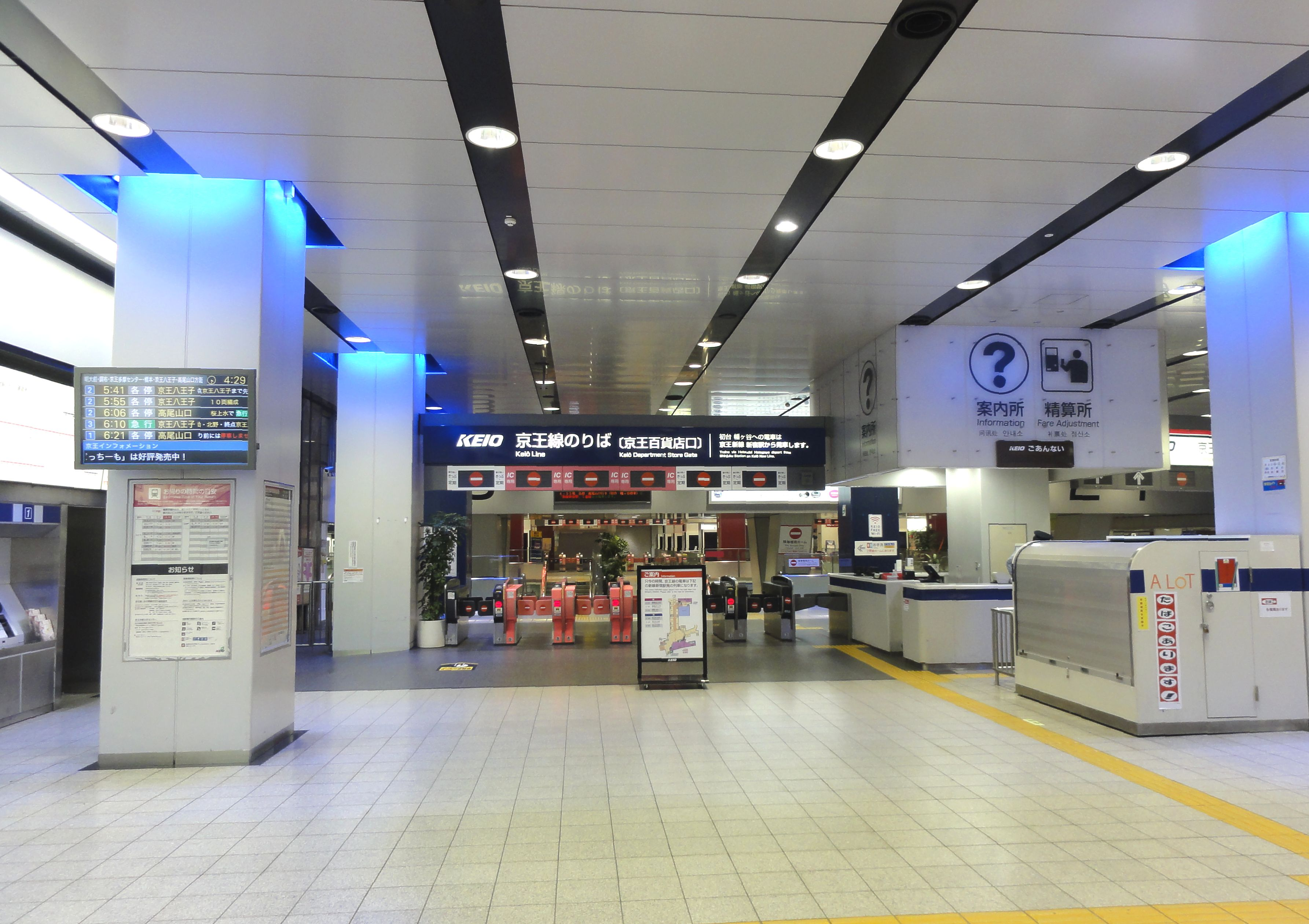 The Keio Department Store ticket gate inside Shinjuku Station in Tokyo, Japan